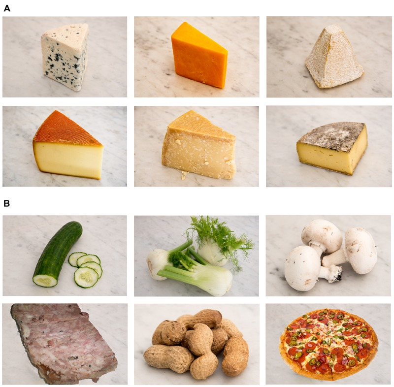 Pictures of the two food categories. (A) Six cheese types were used as stimuli: blue cheese, Cheddar, goat cheese, Gruyère, Parmesan, and tomme. (B) Six OFoods (foods other than cheese) were used as stimuli: cucumber, fennel, mushroom, pâté, peanut, and pizza.